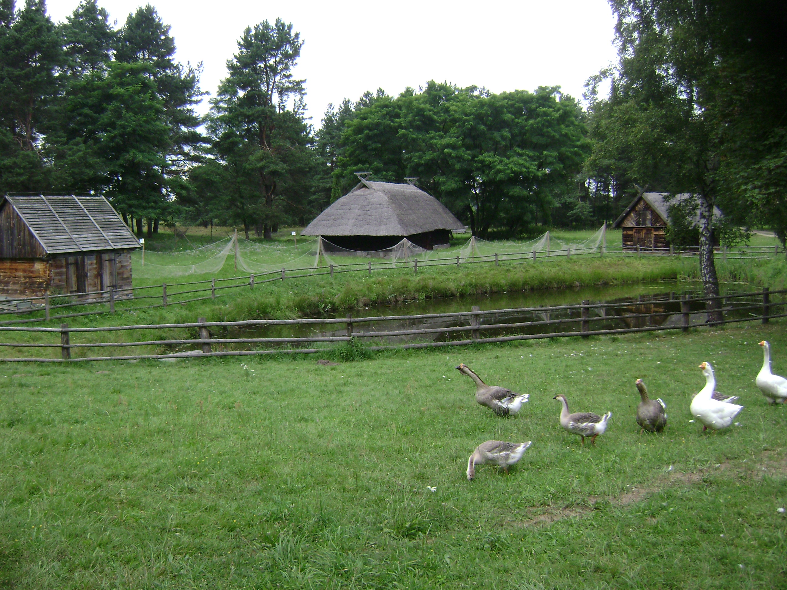 Poland. Olsztynek. Open air museum. (Skansen). Buildings for fisherman.